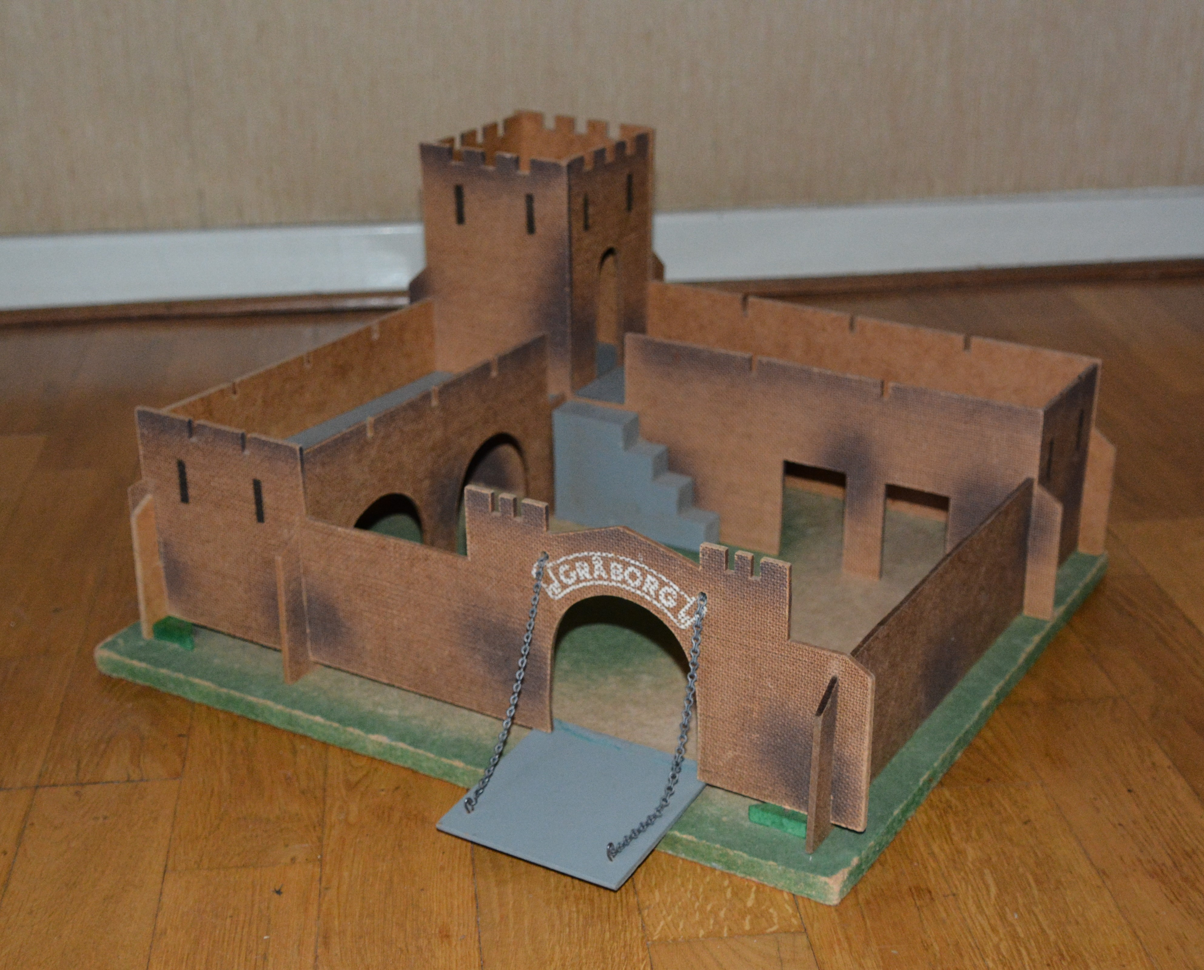 Toy castle in Masonite, from the 1950's